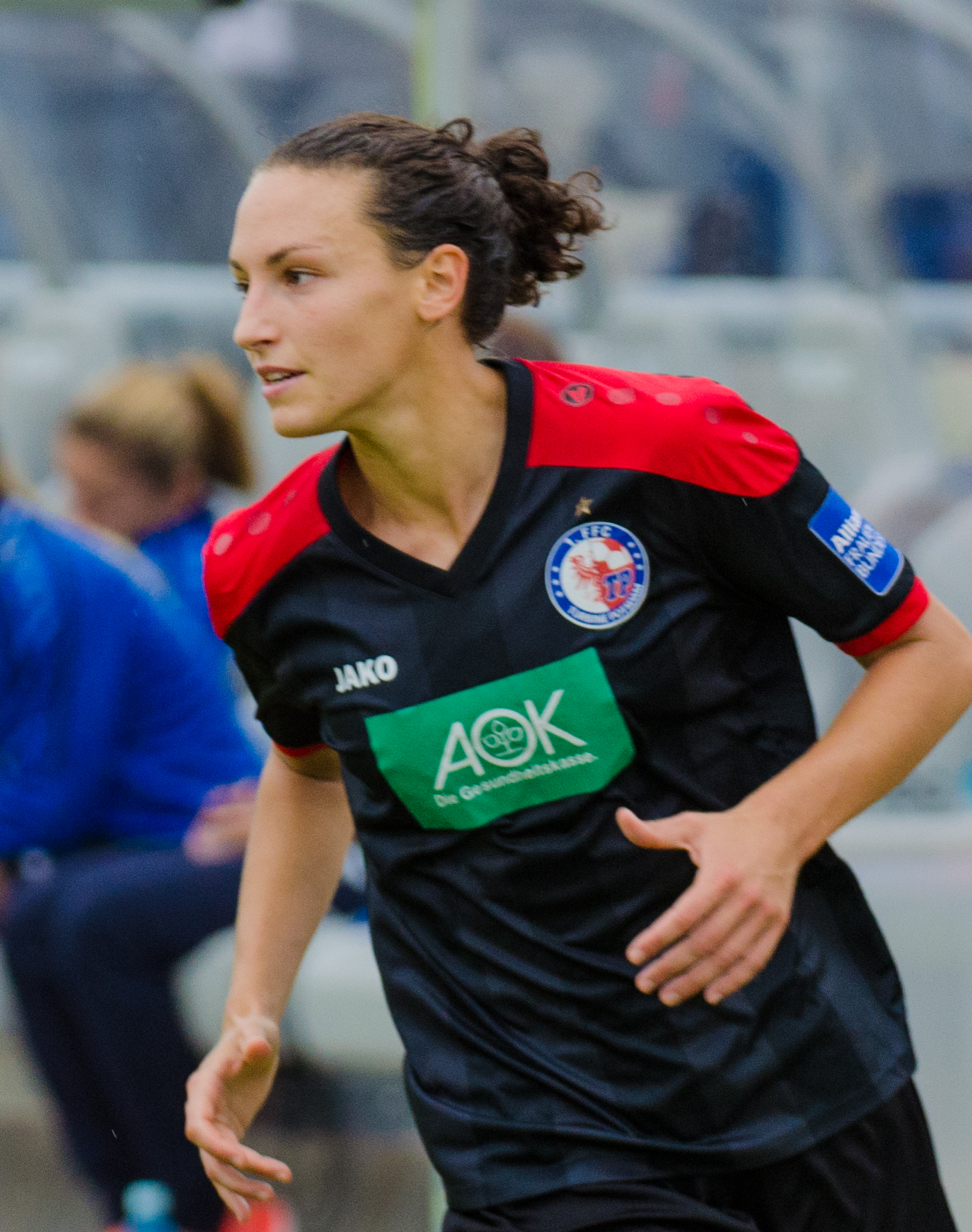 Match of the German Women's Football Bundesliga between 1.FFC Frankfurt and 1. FFC Turbine Potsdam, 2015-09-13